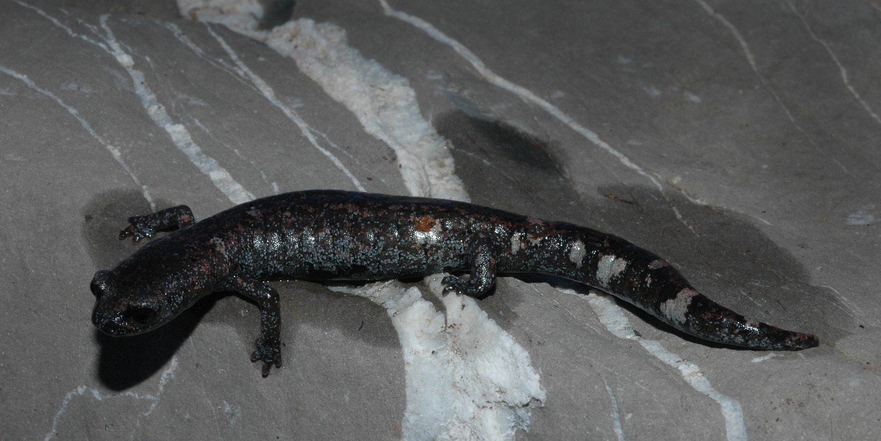 Class Amphibia, Order Caudata, Family Plethodontidae: Galeana false brook salamander (Aquiloeurycea galeanae) photographed in the municipality of Miquihuana, Tamaulipas, Mexico, 5 October 2008. William L. Farr